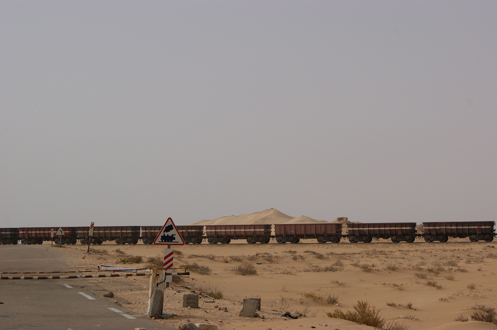 The Ore train in Mauritania